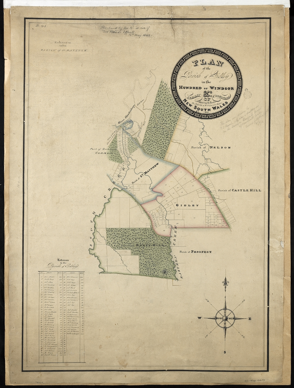 Description is: Lands Department Map pf the Parish of Gidley in the Hundred of Windsor. Bears a pencil note "The plan was handrawn by PL Bemi who was a draftsman in the Surveyor General's Dept of New South Wales (signed) Edward Knapp LS 21/5/13 Dated: 1822 Item: [SR Map 6273] Rights: We'd love to hear from you if you use our maps/plans. Many other photos in our collection are available to view and browse on our website using Photo Investigator.